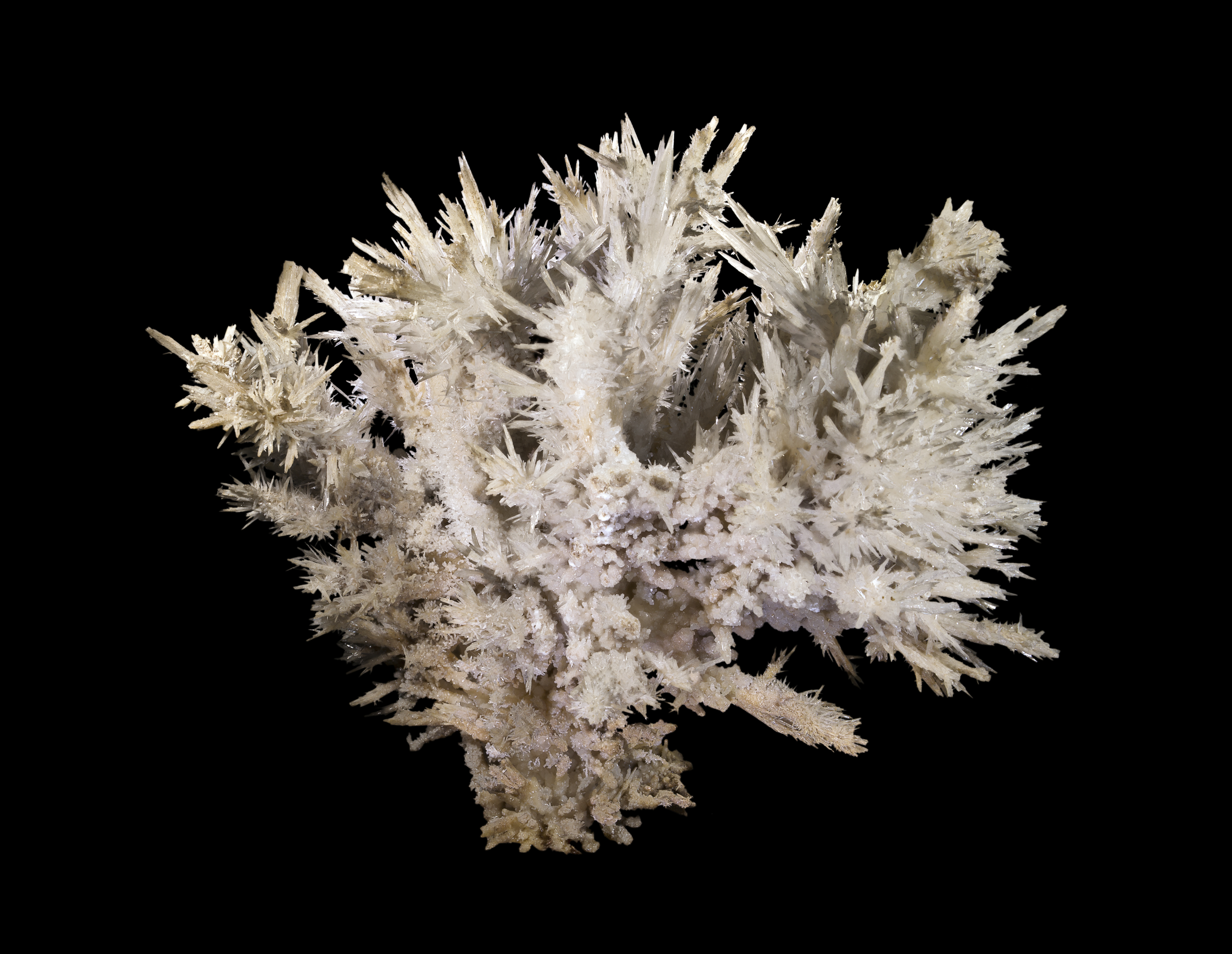 Aragonite Salsigne Mine - Aude department France Size : 30x30x20 cm